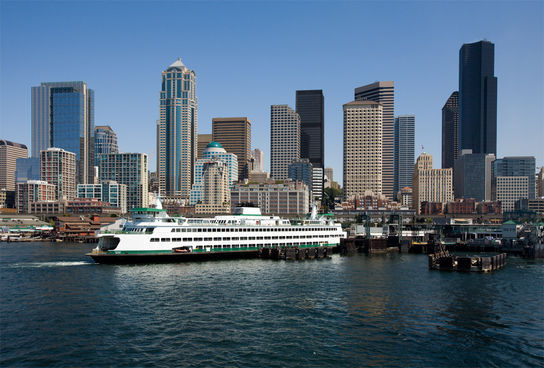 Downtown Seattle, Washington and the Bainbridge Island ferry. During the past few decades many high rises have gone up.